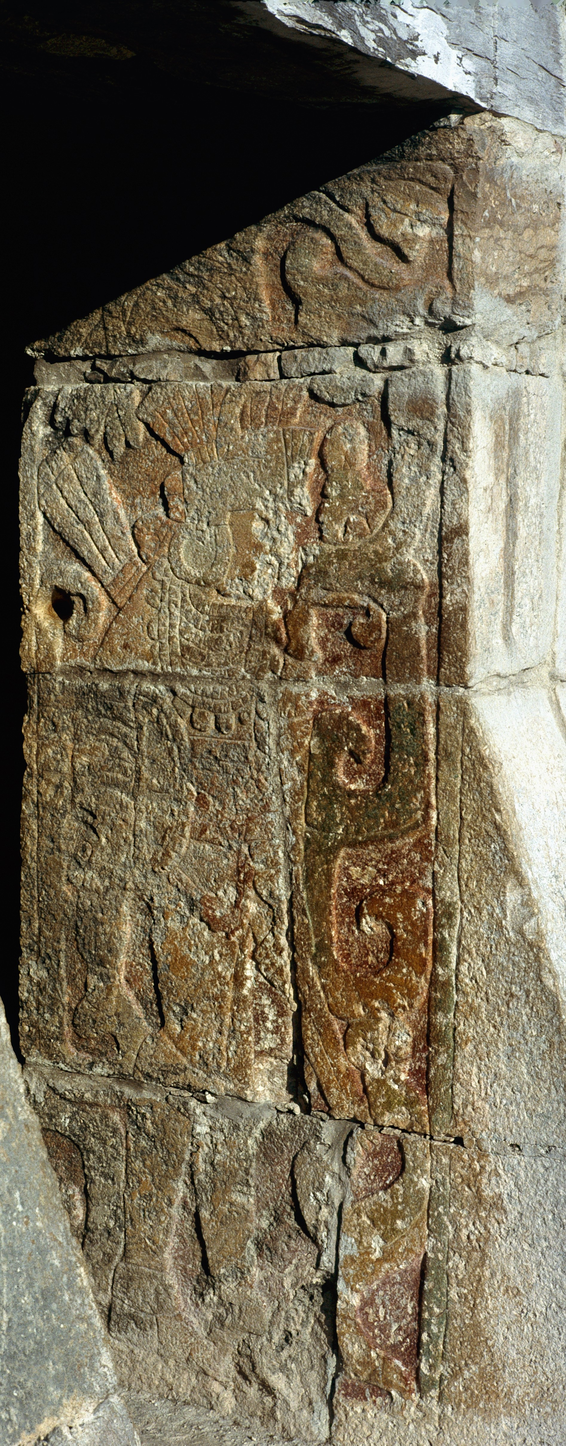 Chichen Itza, Yucatan, Mexico: Castillo, door jamb